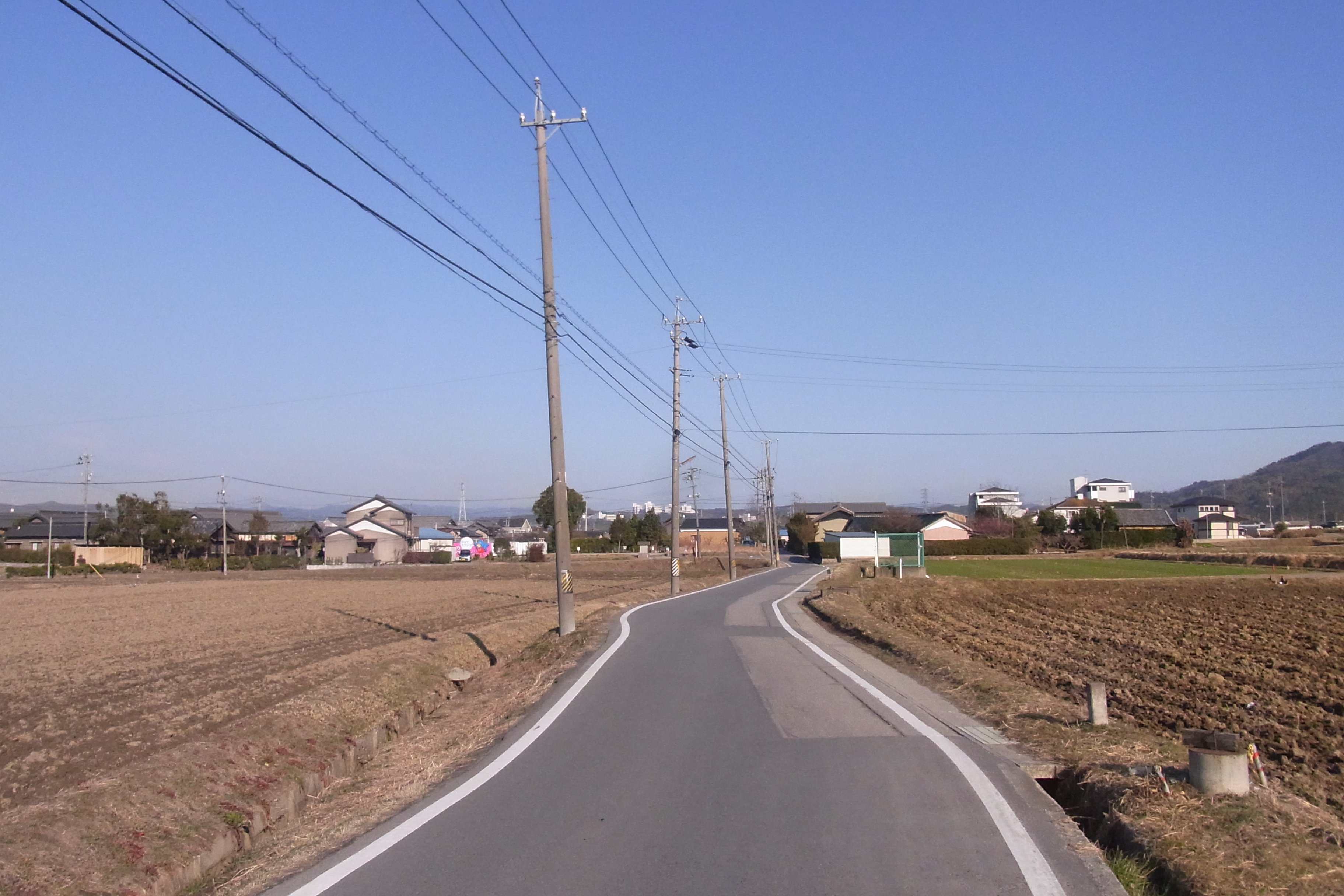 Aichi Prefectural road No.327 in Miai-cho, Okazaki City.